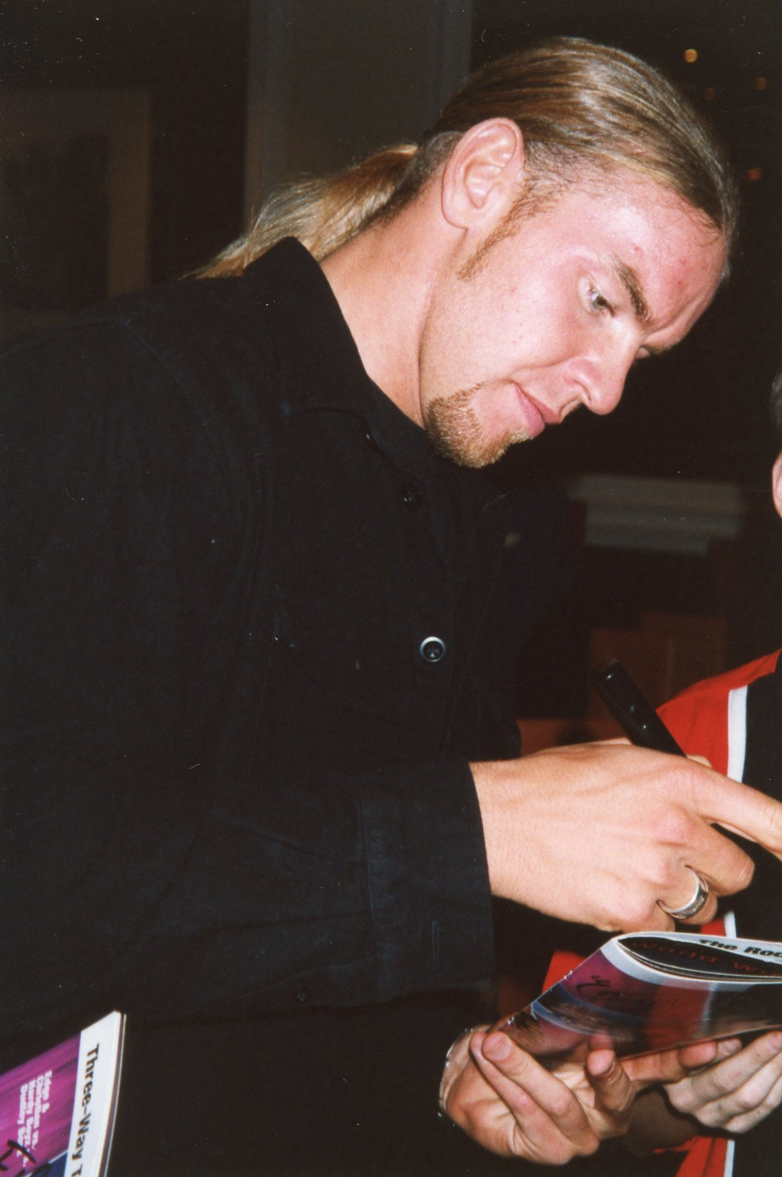 Christian (Jay Reso) signing autographs